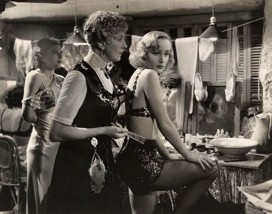 Cecil Cunningham (middle) & Carole Lombard in Swing High, Swing Low - cropped screenshot (original image : see source)